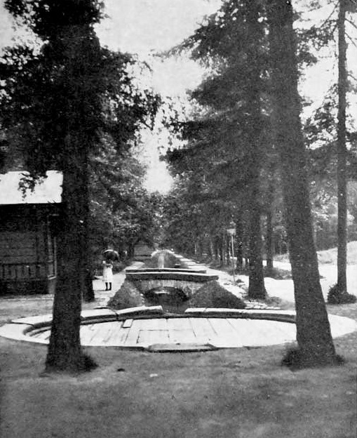 Taitsky watercourse in Tsarskoe Selo. This is the first Russian citywide water supply, abandoned in 1905.